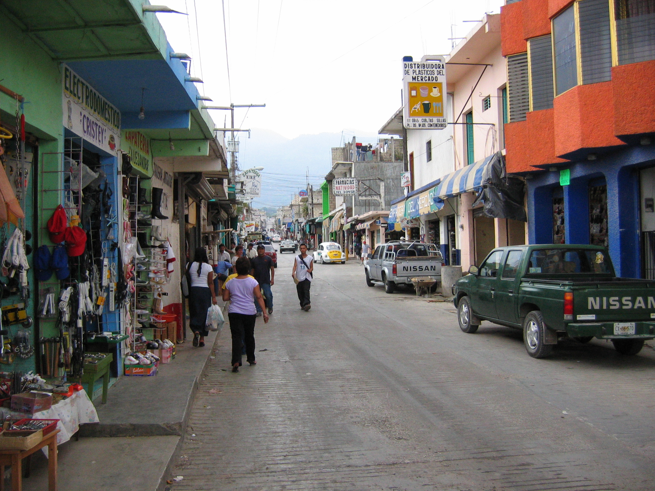 Photo taken by Poppy in March 2005